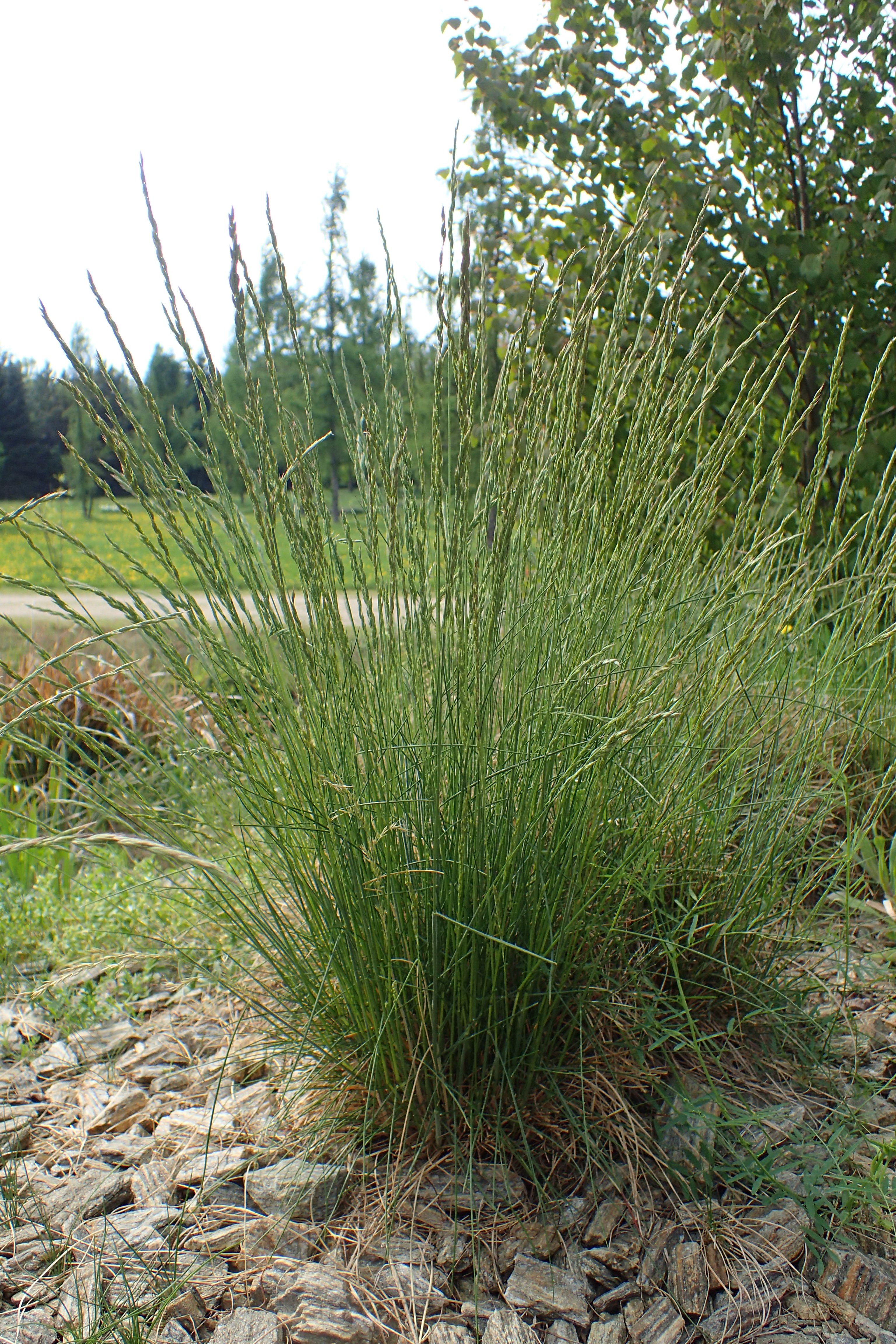 Festuca ovina in the Forest arboretum in Stradomia